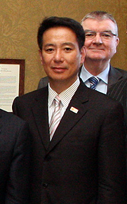 Members of the UK-Japan 21st Century Group met William Hague, Secretary of State for Foreign and Commonwealth Affairs, in the United Kingdom on May 2, 2013.